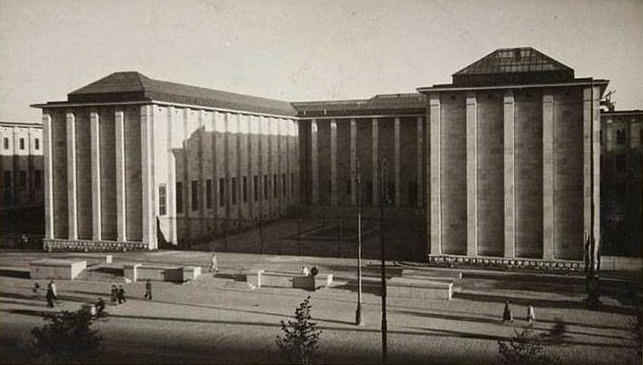 Main facade of the National Museum in Warsaw.